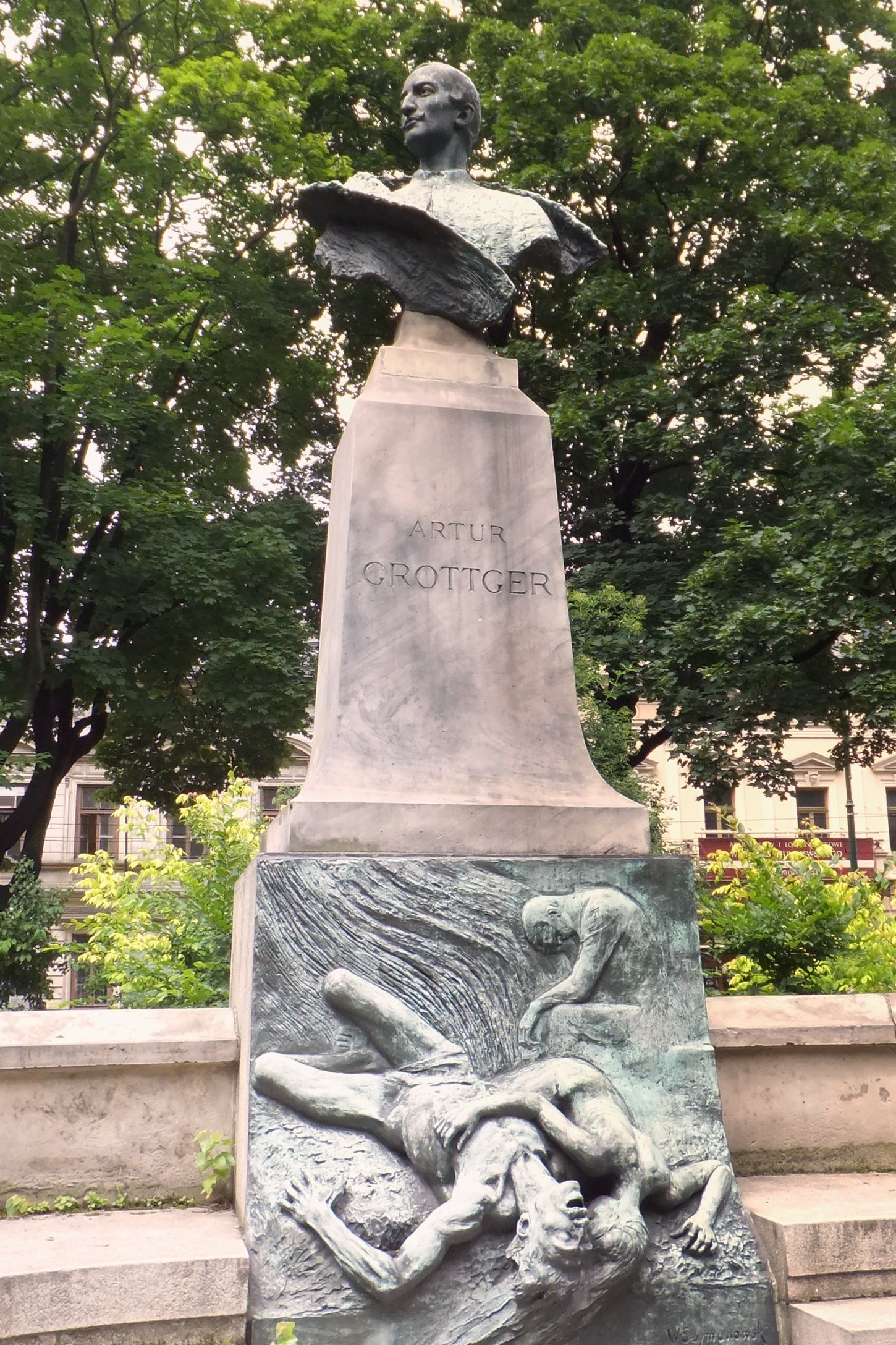 Monument for Artur Grottger in Kraków (Cracow) in Poland